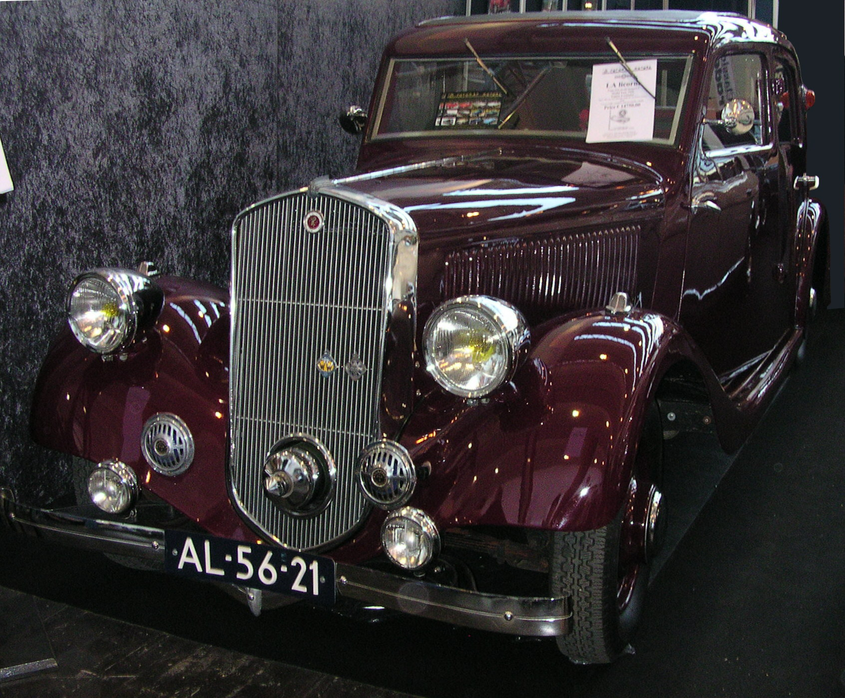 Essen Techno-Classica 2007, La Licorne rivoli 415 series L3